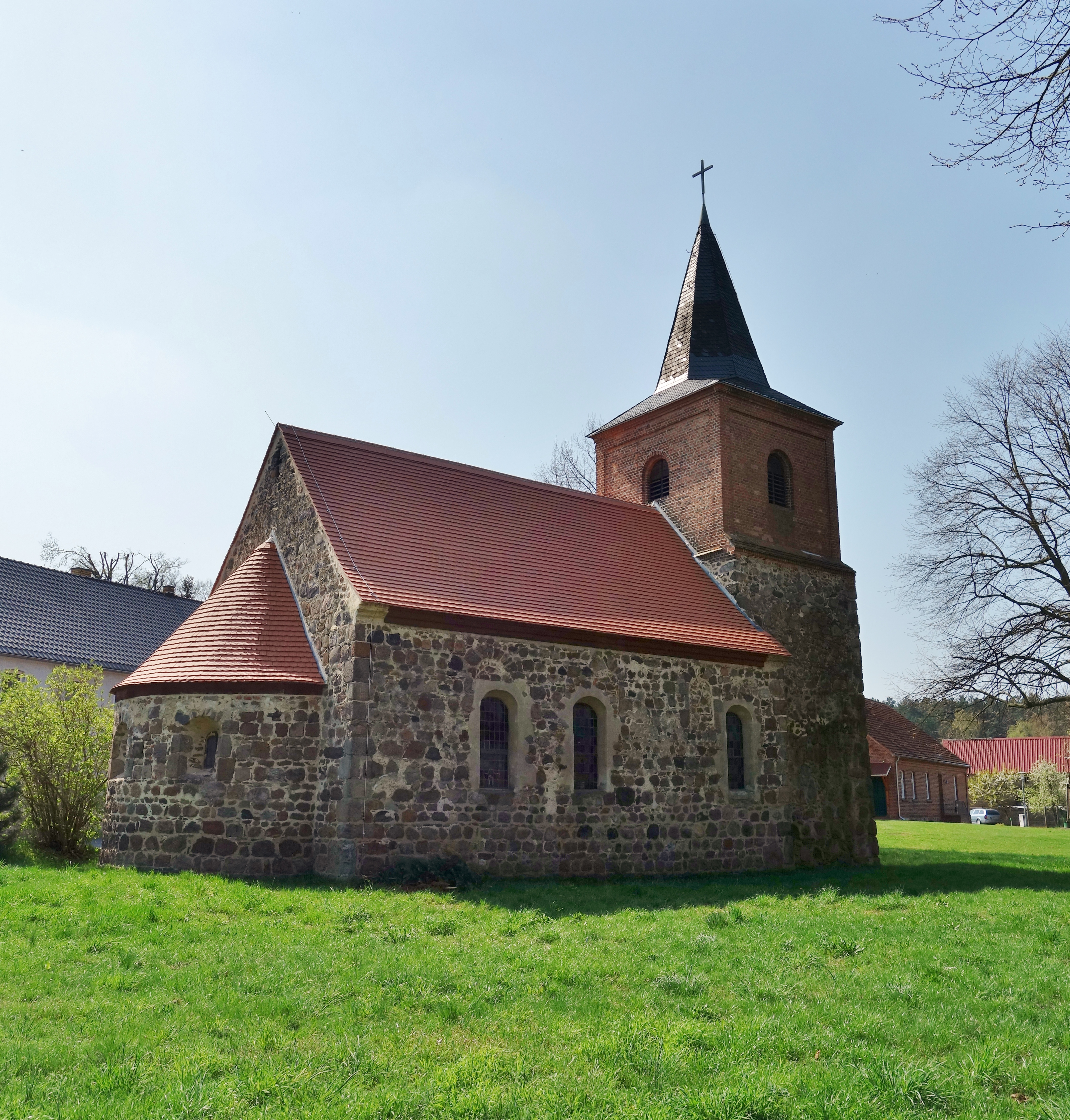 North-north-eastern view of the church in Haseloff , Mühlenfließ municipality , Potsdam-Mittelmark district, Brandenburg state, Germany.